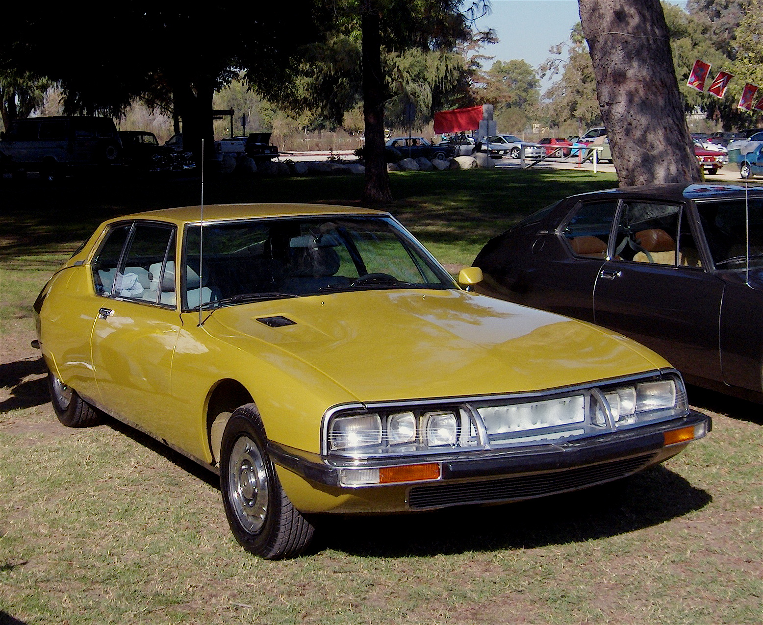 Own photo taken in public location.